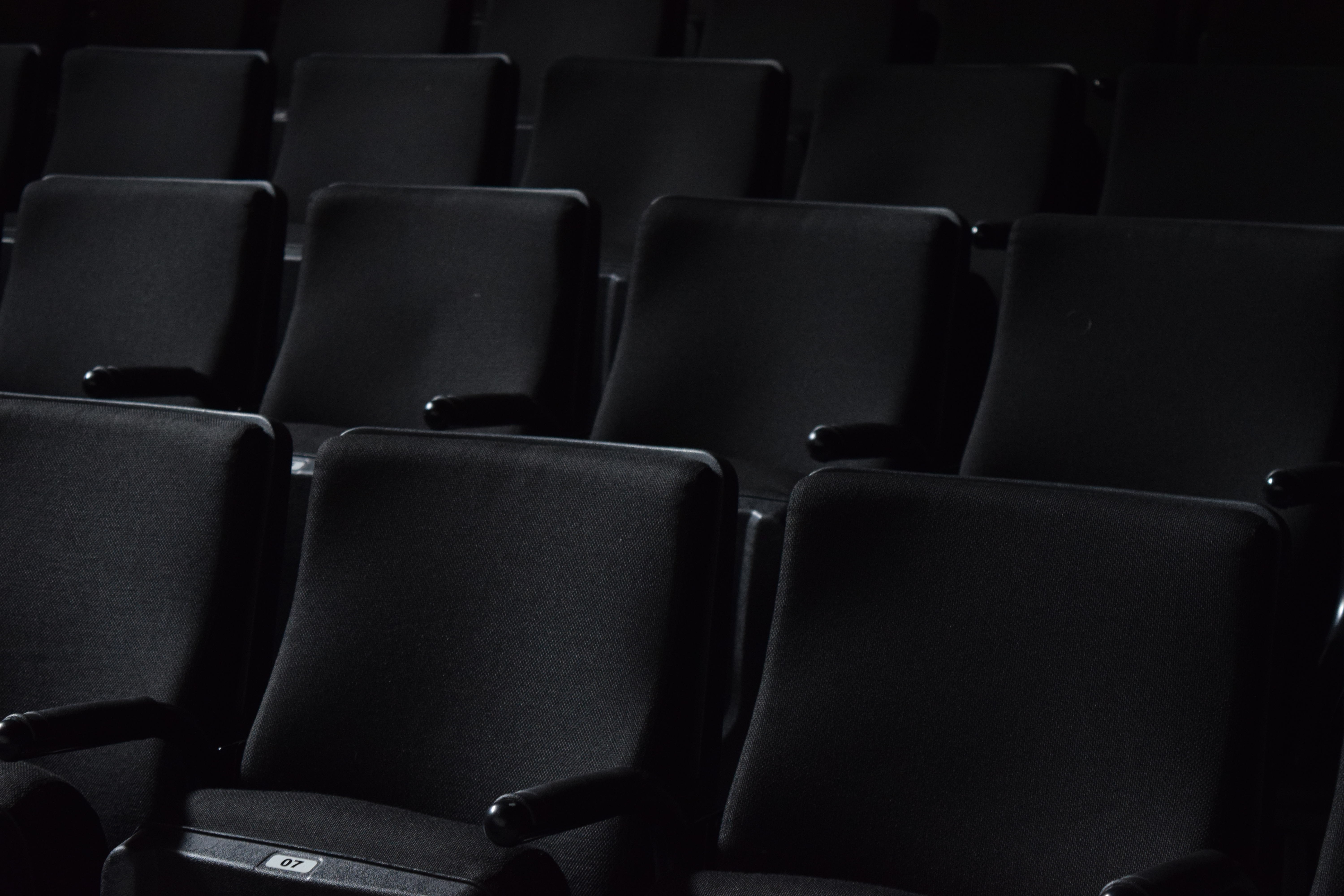 Seats at Cine Lido (Lido Cinema), a cinema located inside Centro Cultural Bella Época (Beautiful Time Cultural Center) at Colonia Condesa, Mexico City.